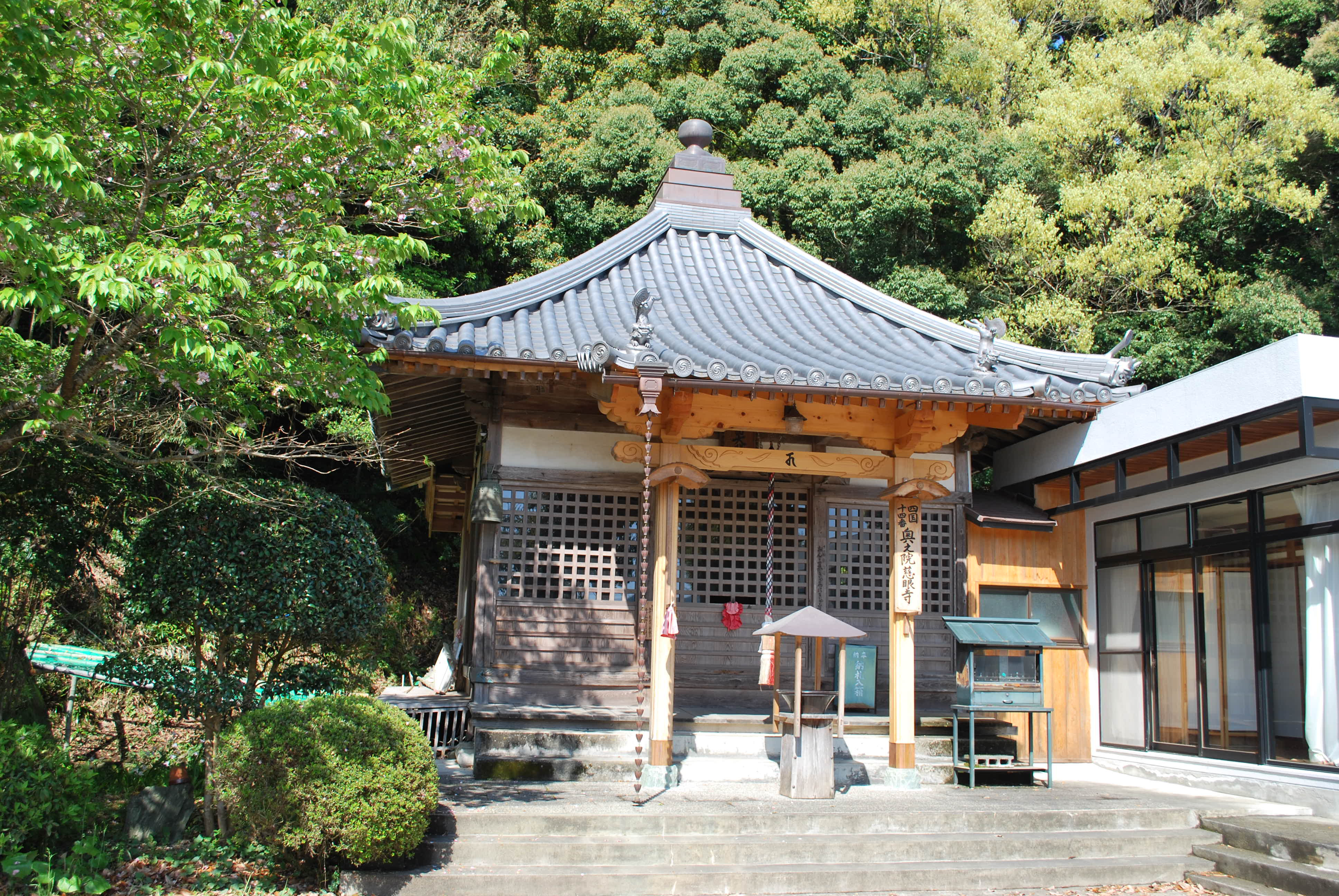 Main temple, Jigen-ji